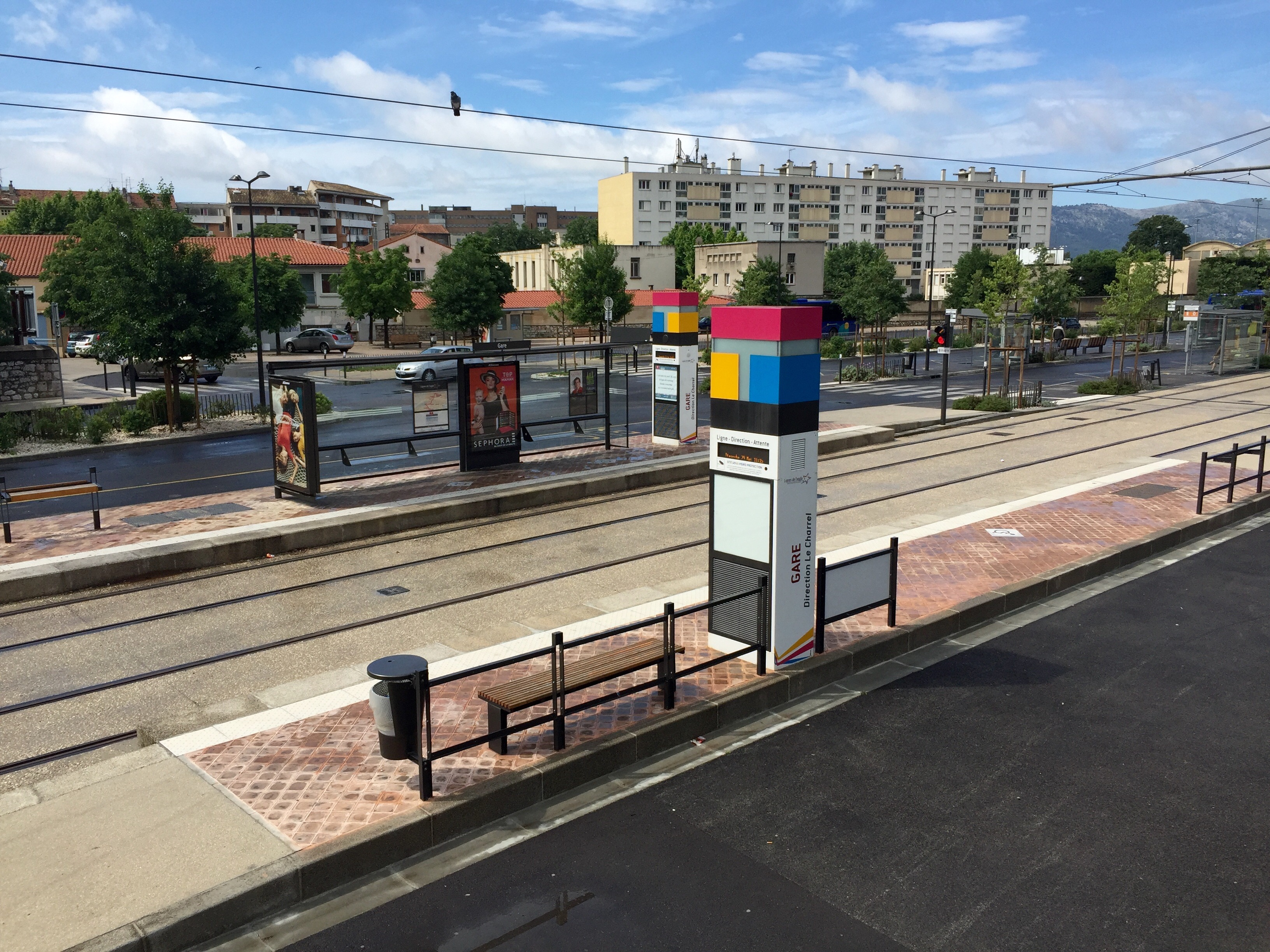 Aubagne tramway station at the train station